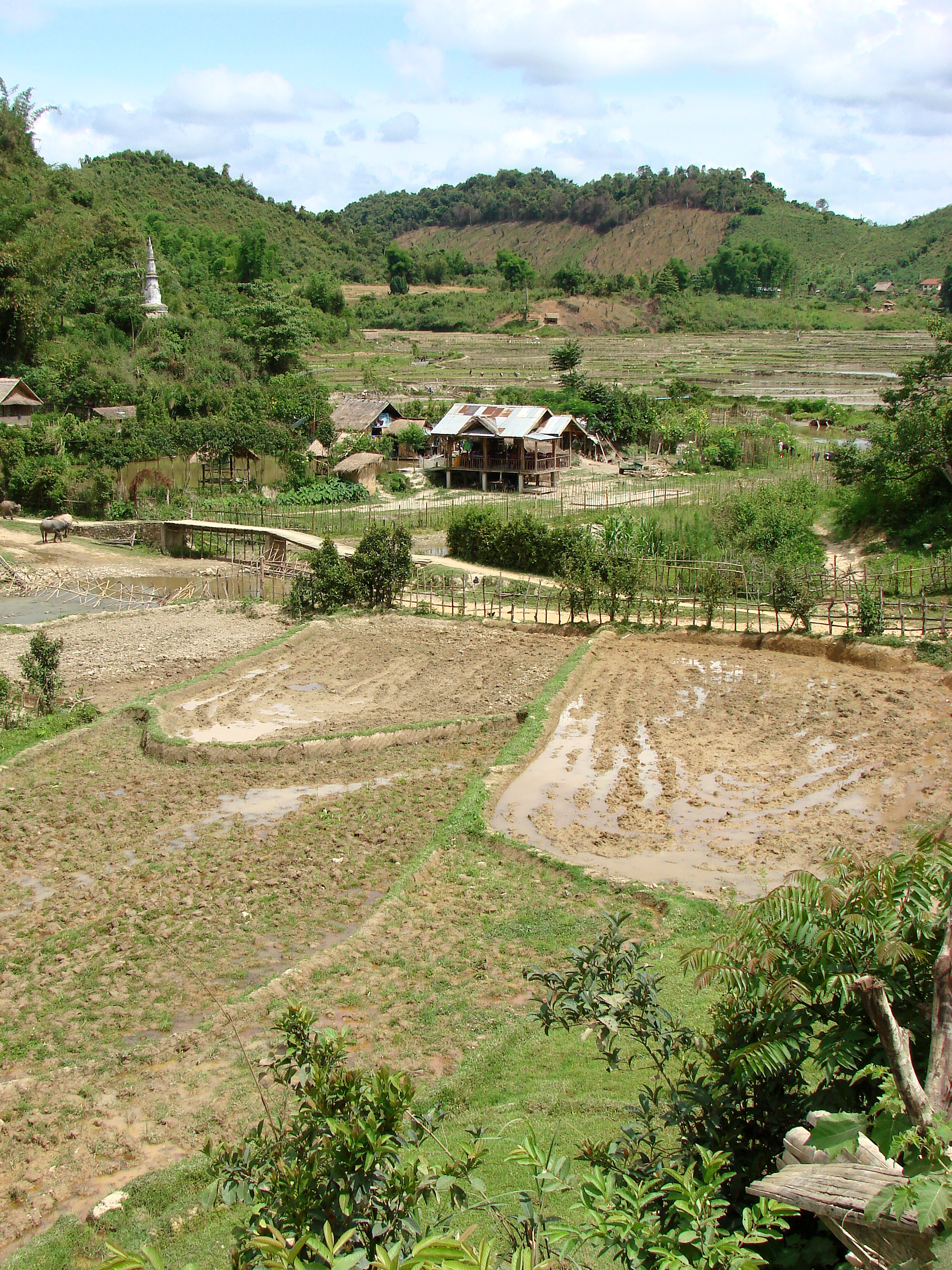 Countryside around Sam Neua, Laos. June 2009.